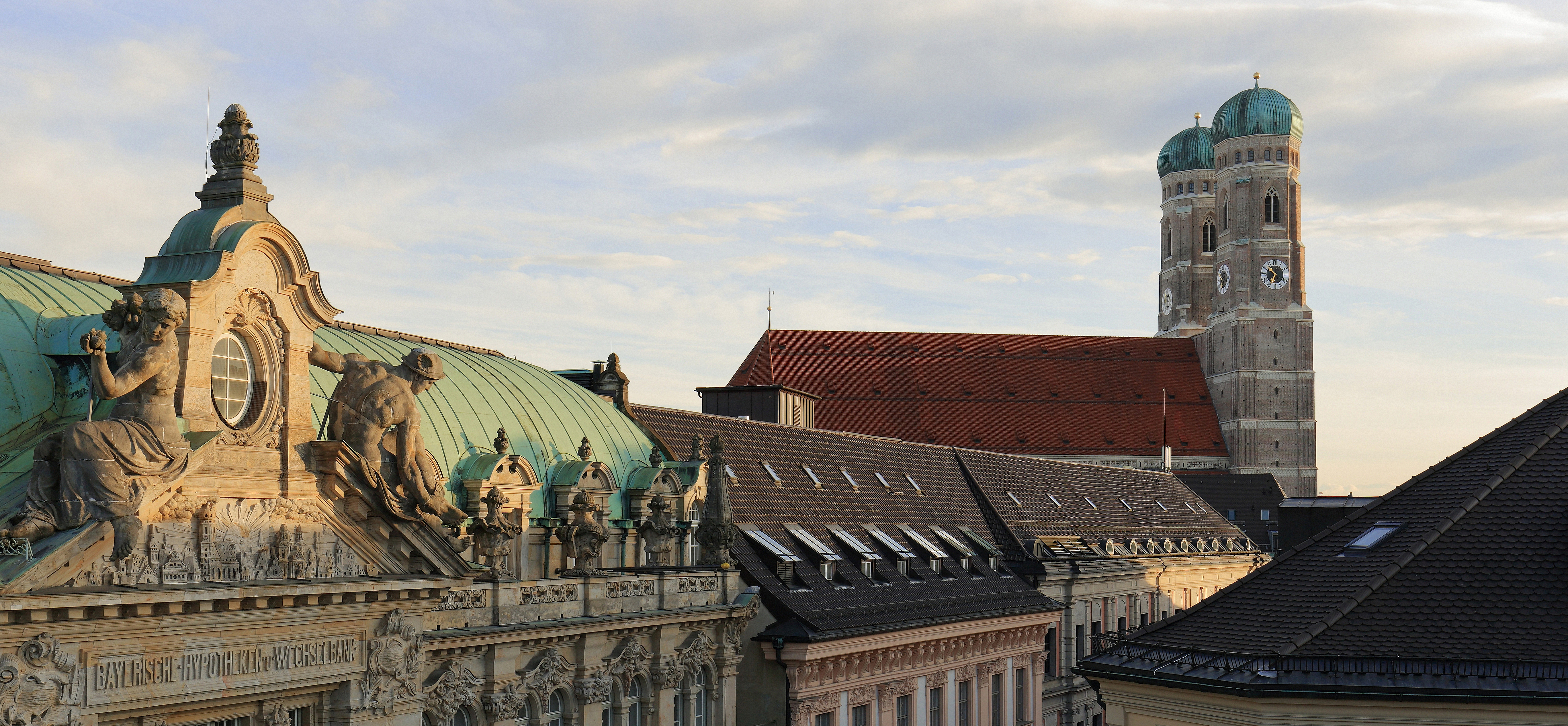 Frauenkirche, Munich, as seen from N - a rare view taken atop the "Lovelace", a temporary pop-up project in the former HVB Forum, Kardinal-Faulhaber-Straße 1.